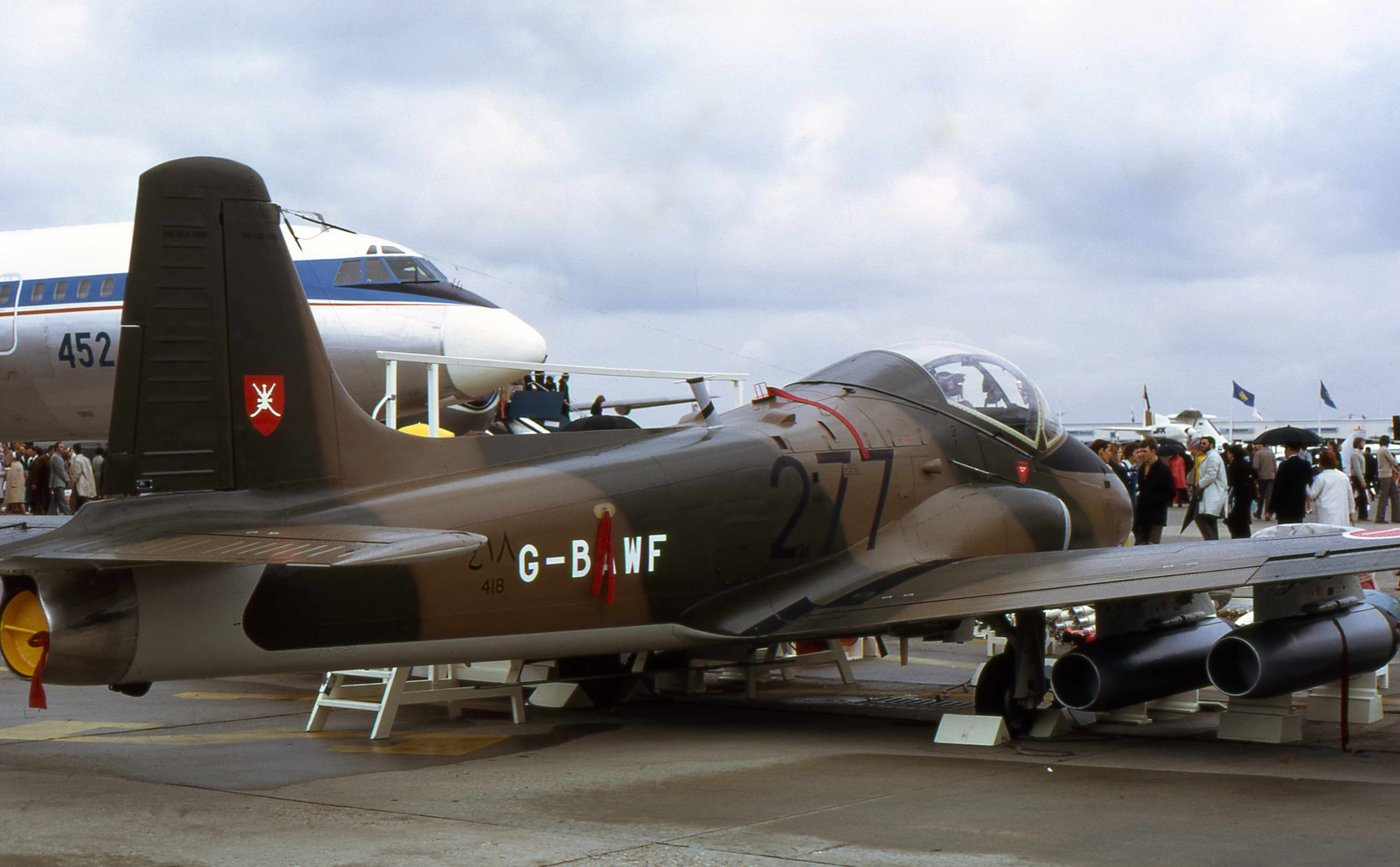 France, Paris Air Show 1973. The British training and light aircraft BAC Strikemaster shown on static display with the insignia of the Sultan of Oman's Air Force.